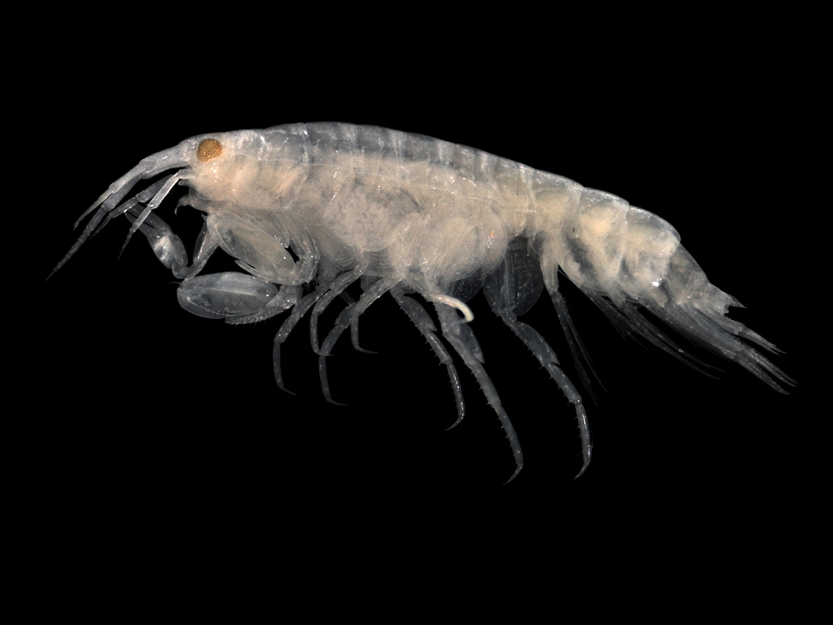 Amphipod with two antennae of near equal length and large gnathopods. Sampled on fine-grained sediments on the Belgian Continental Shelf. Geo-location not applicable as the picture was taken in the lab.Picture taken with a camera mounted on a Zeiss Stemi C-2000 binocular microscopeLength: ~4 mm